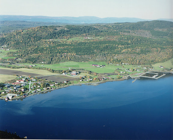 Mosvik, Norway. Aerial photo from 2001